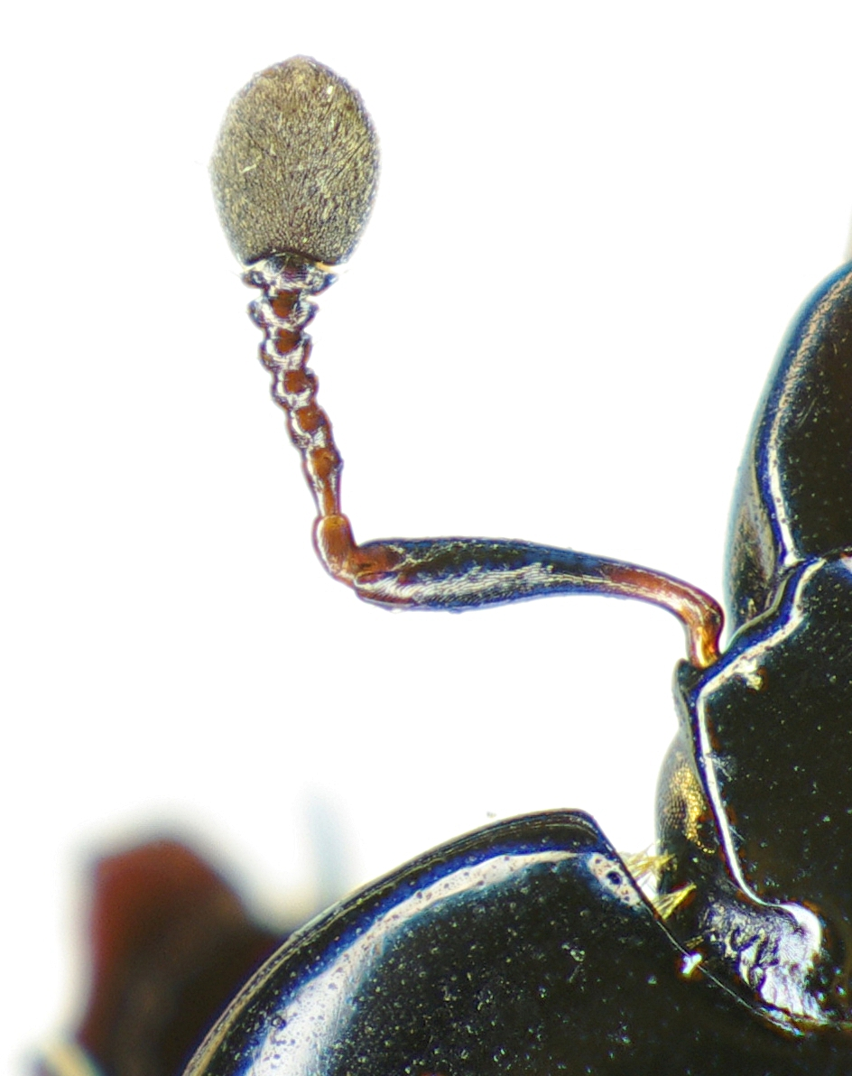 Hololepta plana, antenna